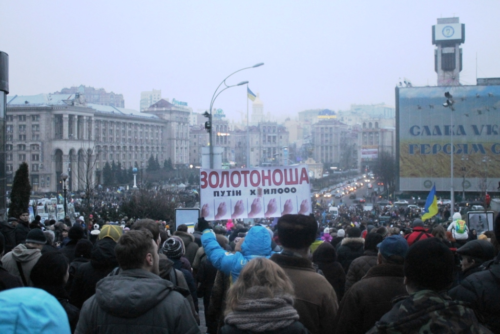 Kyiv. Peace march in memory of victims of the Donetsk People's Republic terrorists near Volnovakha. 18 january 2014